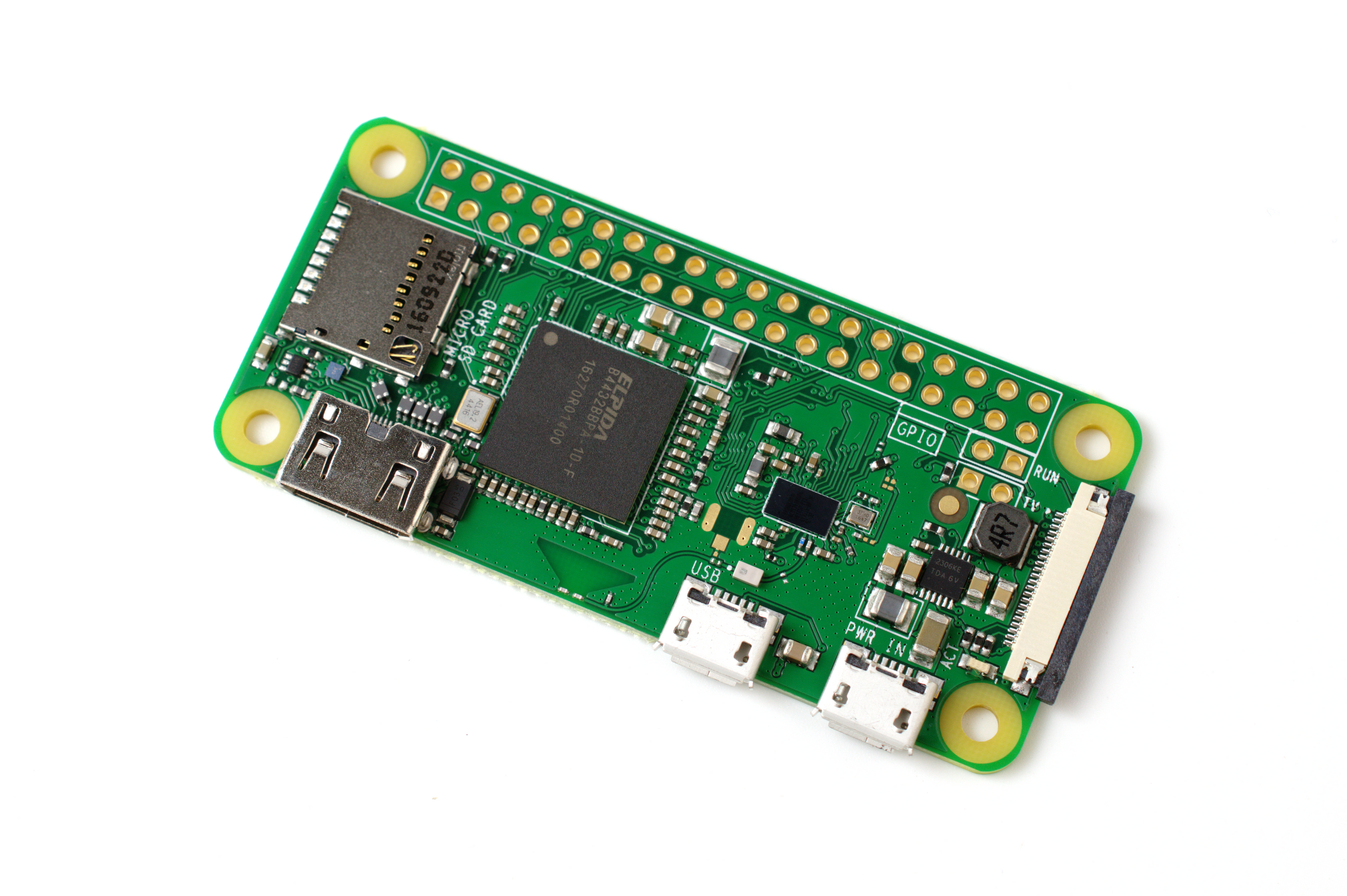 The wireless variant of the Raspberry Pi Zero microcomputer, known as the Raspberry Pi Zero W. PureAudio™ Array Microphone Development Kit for Raspberry Pi 3; Microphone & Voice Recognition